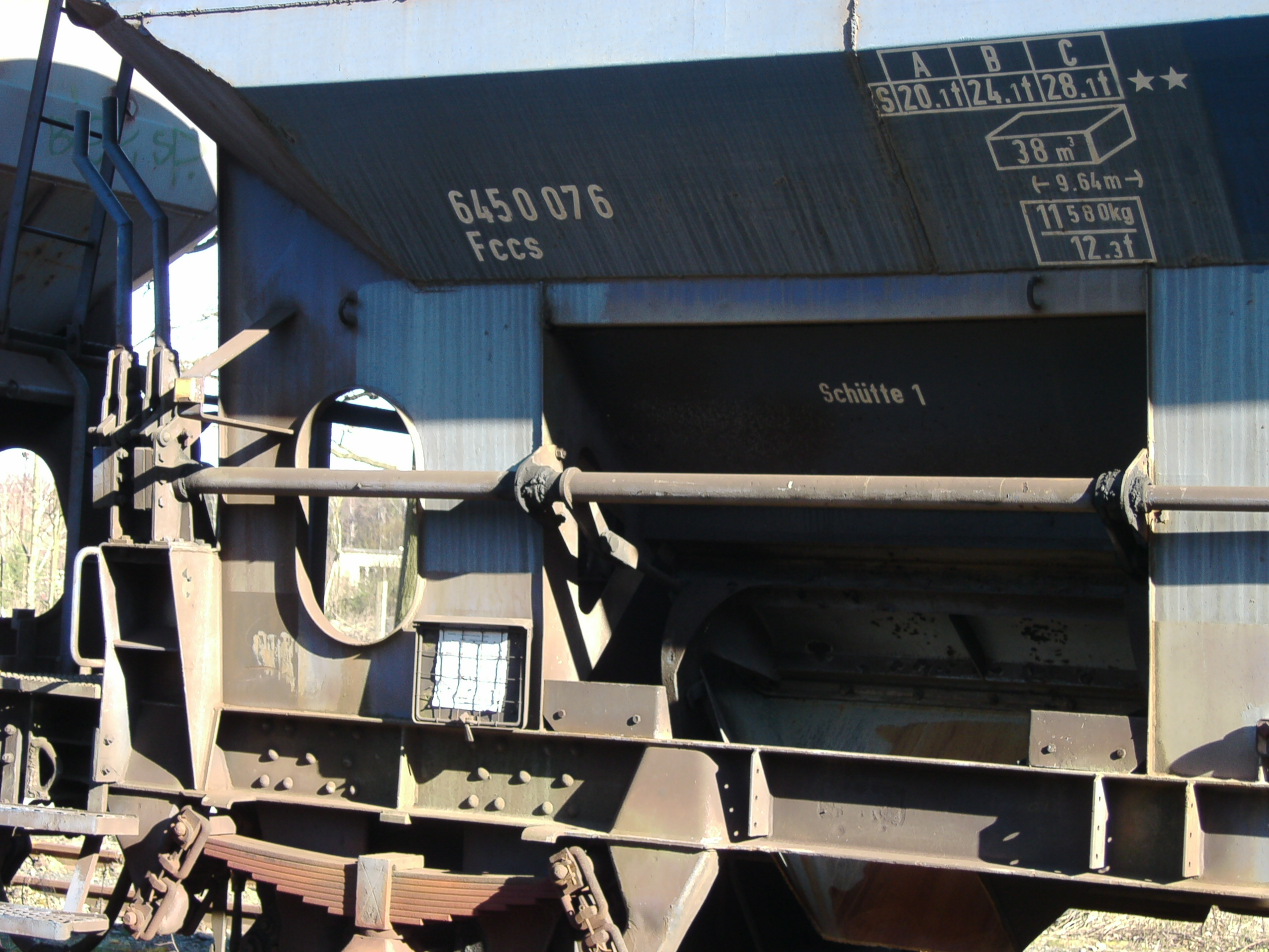 An ITL railways Class Fccs self-discharging hopper wagon with controllable discharge apparatus.